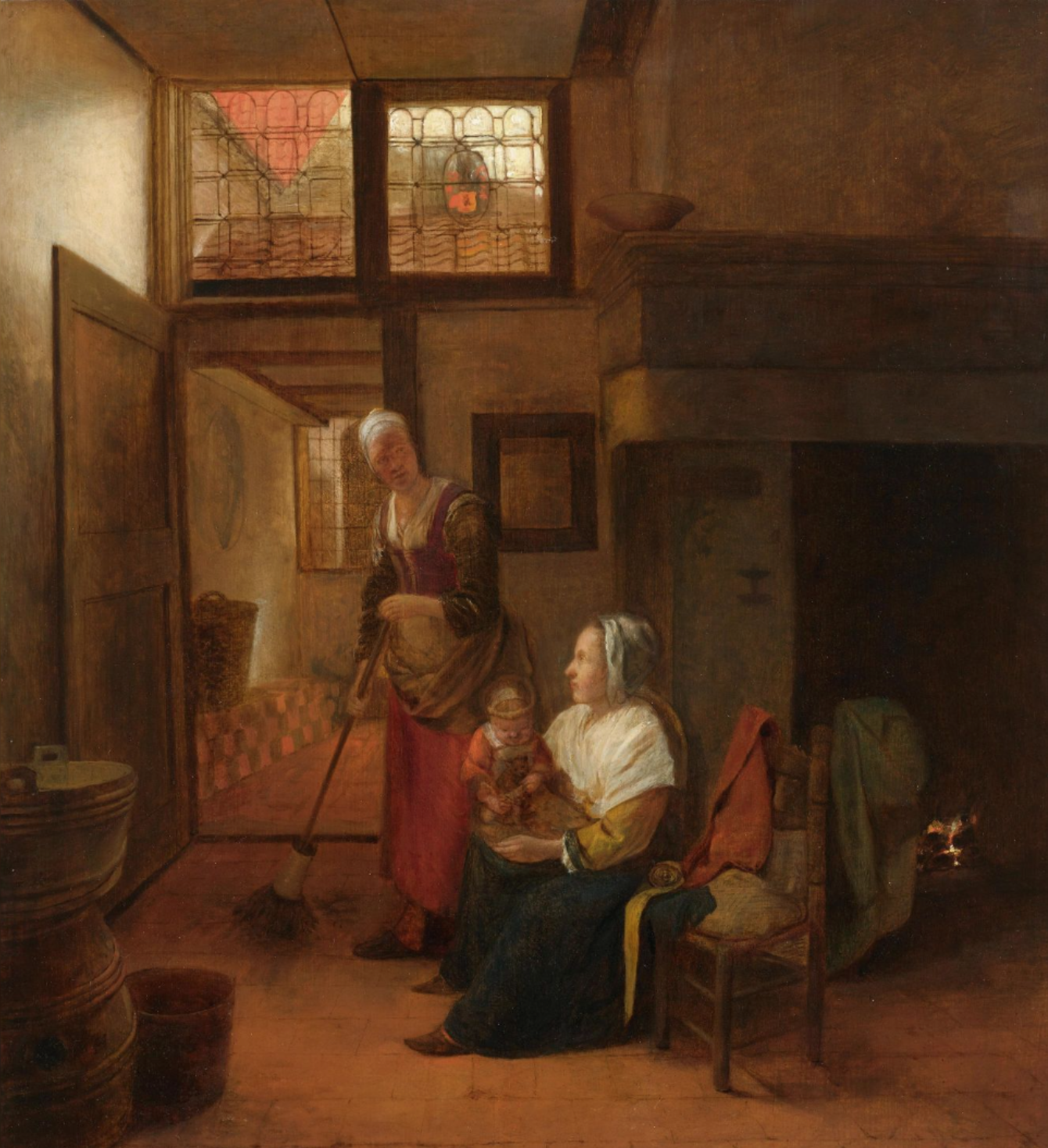 Interior with a Mother and Child and a Servant by Pieter de Hooch c 1656